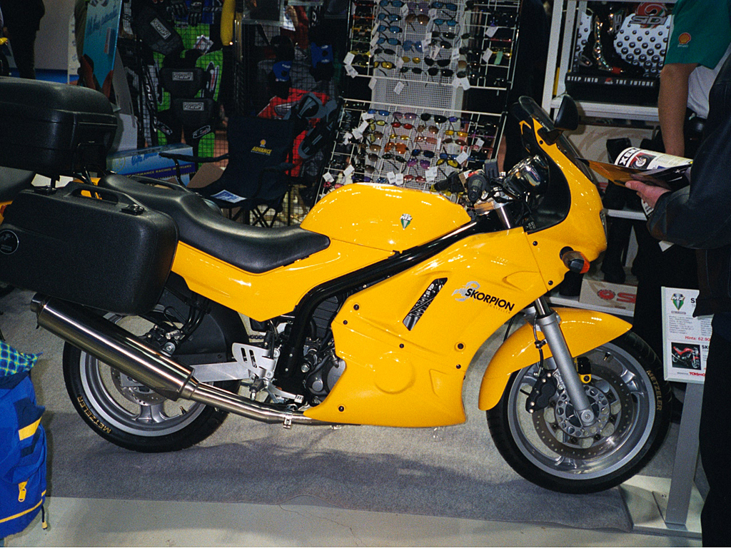 MZ Skorpion 660 Traveller equipped with Yamaha's four-stroke engine (2001). The panniers were factory-installed, not optional, unlike many other makes. This MZ was displayed at the importer's stand at Tampere Motorcycle Show, Finland, in 2001.